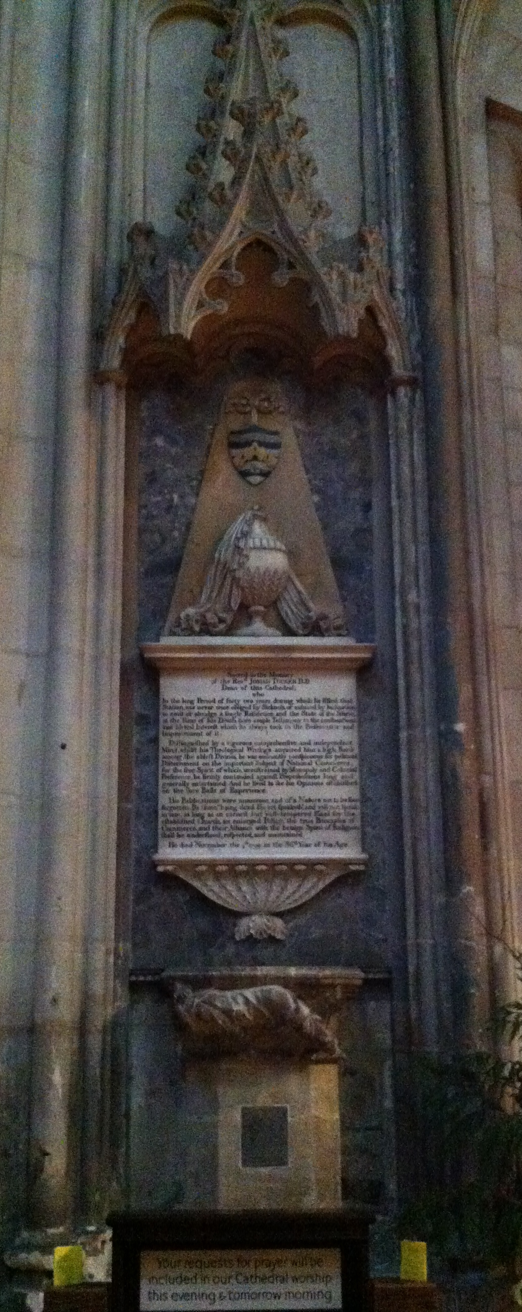 John Tucker, Dean of Gloucester. Died 4 November 1799 aged 86.